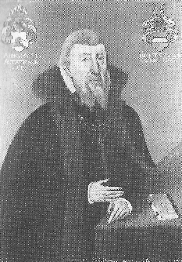 Danish admiral Peder Skram